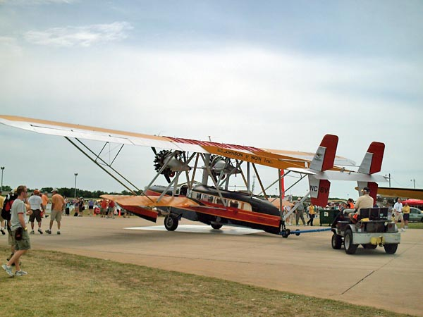 Linmhall, own photo.